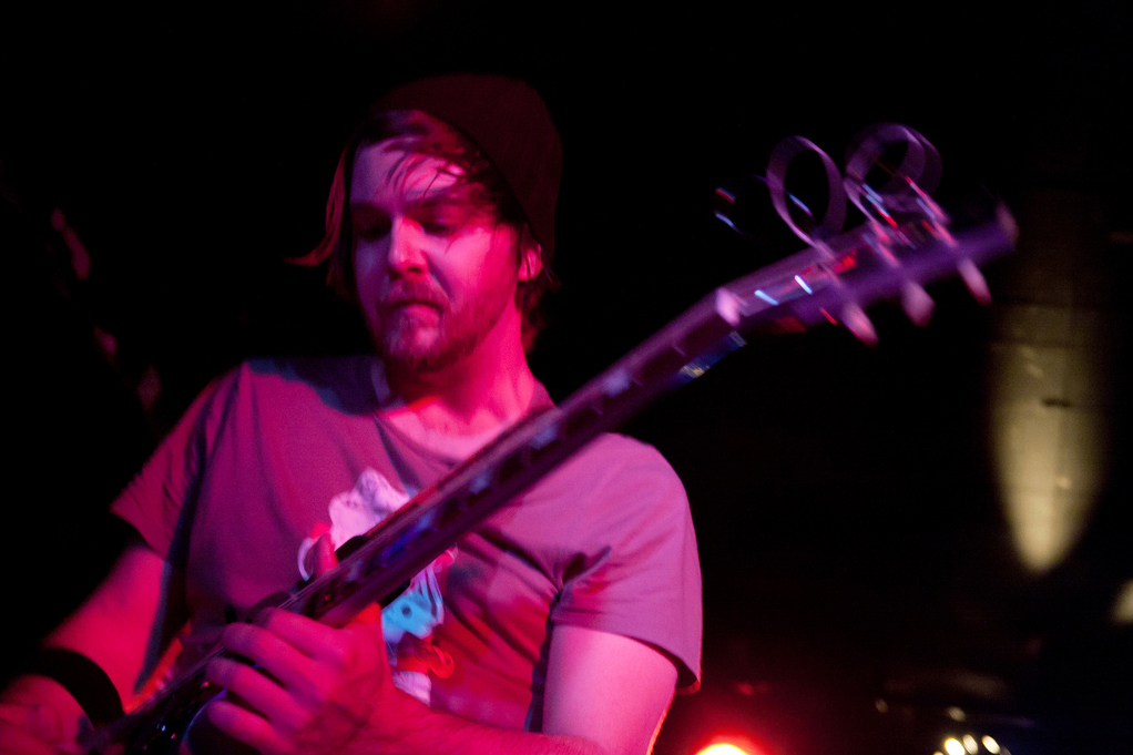 Alex Wright performing at The Horseshoe Tavern in 2010.